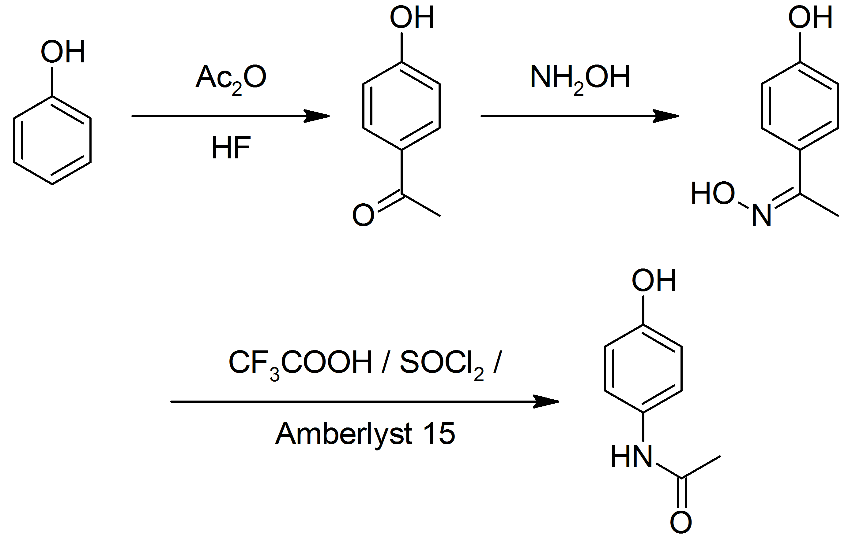 Celanese synthesis of paracetamol. Elmar Friderichs, Thomas Christoph, Helmut Buschmann (2005), “Analgesics and Antipyretics”, in Ullmann’s Encyclopedia of Industrial Chemistry, Weinheim: Wiley-VCH, / {1 } patent {2 }